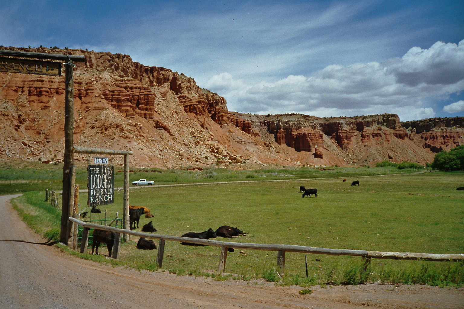 Wayne County,SR 24east, photo taken by myself in June 2005, author: R.Blauert Dk4hb